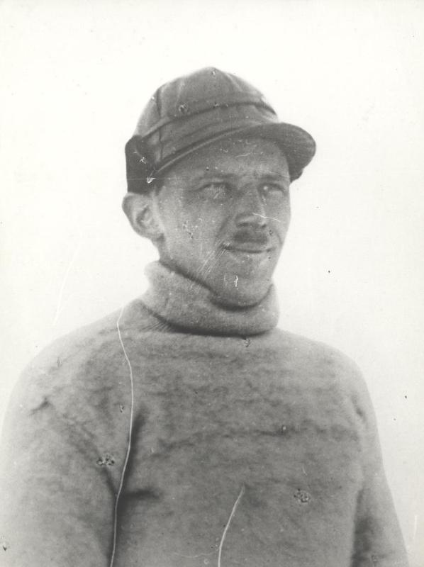 Boris Chukhnovsky (1898-1975), Soviet Arctic aviator